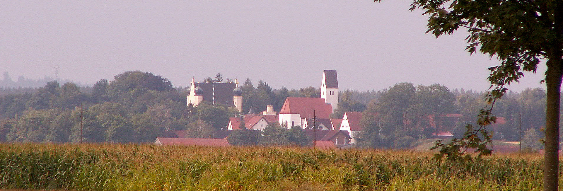 Hurlach von Norden